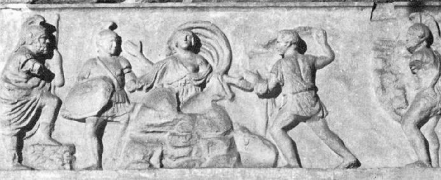 The frieze depicts Tarpeia, a Vestal Virgin, in the center, two soldiers on the left, and a man on the right bringing gifts. It tells the myth of the Sabines suffocating her under the weight of their gifts, and sets the example of punishment for Vestal Virgins who broke their vow of chastity.